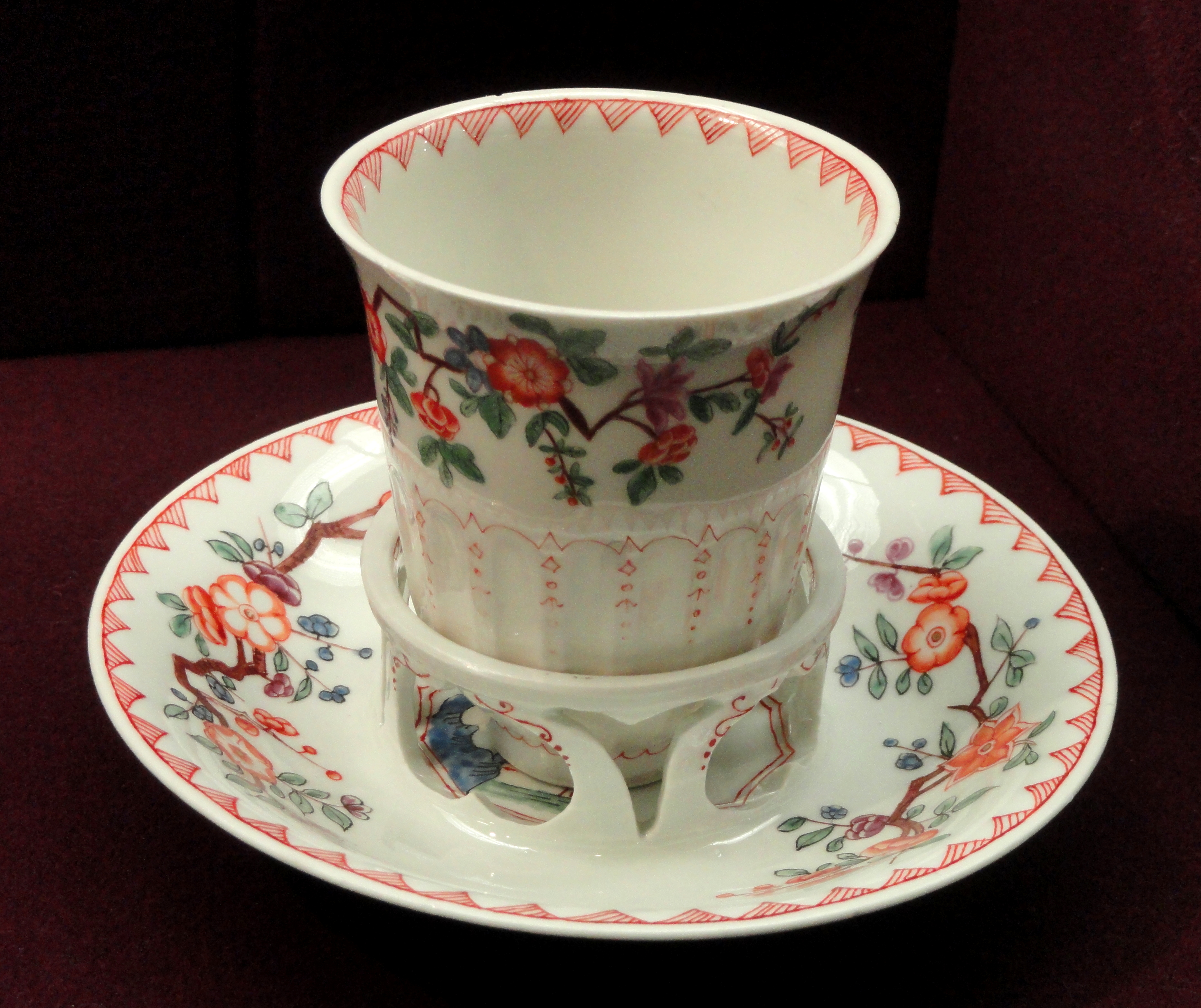 Exhibit in the Gardiner Museum, Toronto, Ontario, Canada. This artwork is in the public domain because the artist died more than 70 years ago.